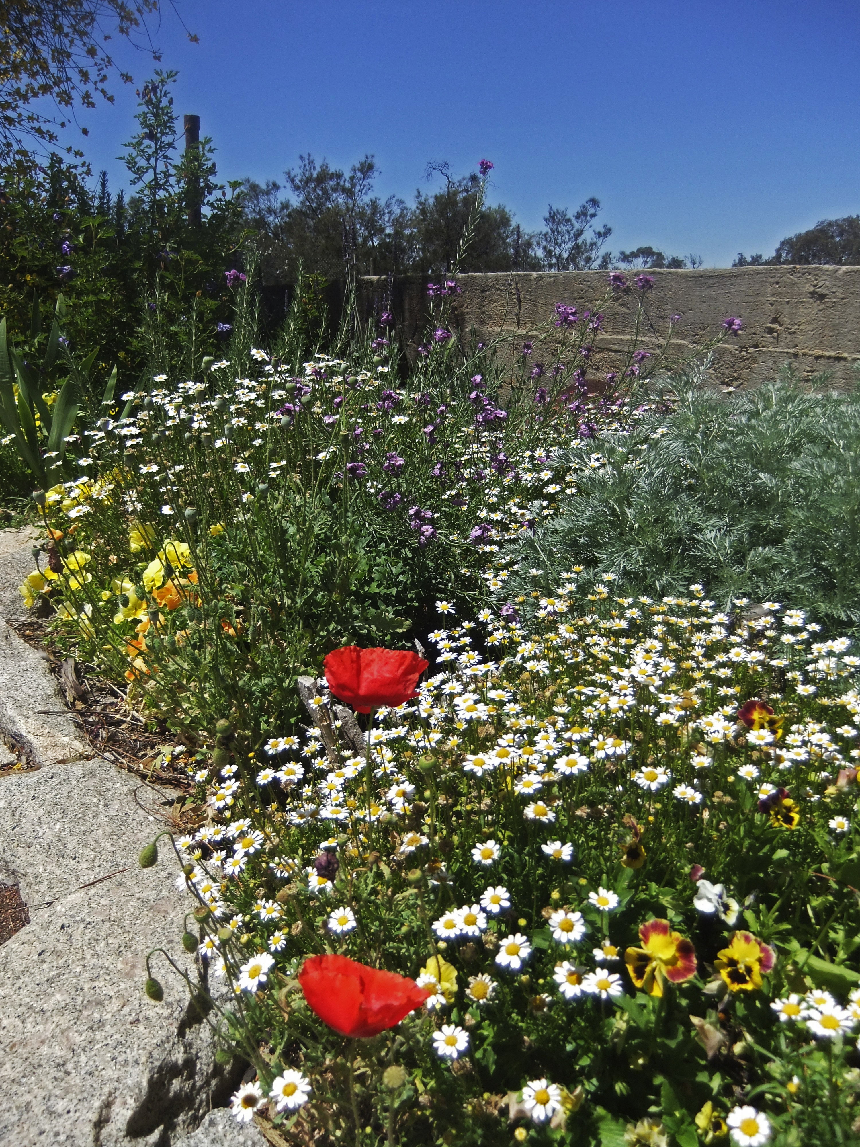 Gwambygine Homestead Eastern Garden, Western Australia